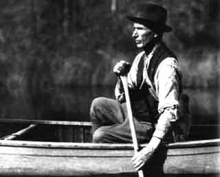 Edmund Horne, explorer